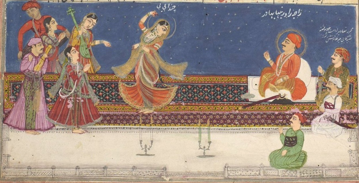 Mah Laqa Bai dancing in the court of Raja Rao Rambha Bahadur behind to him is Mir Alam (as mentioned in Deccani Urdu Script)